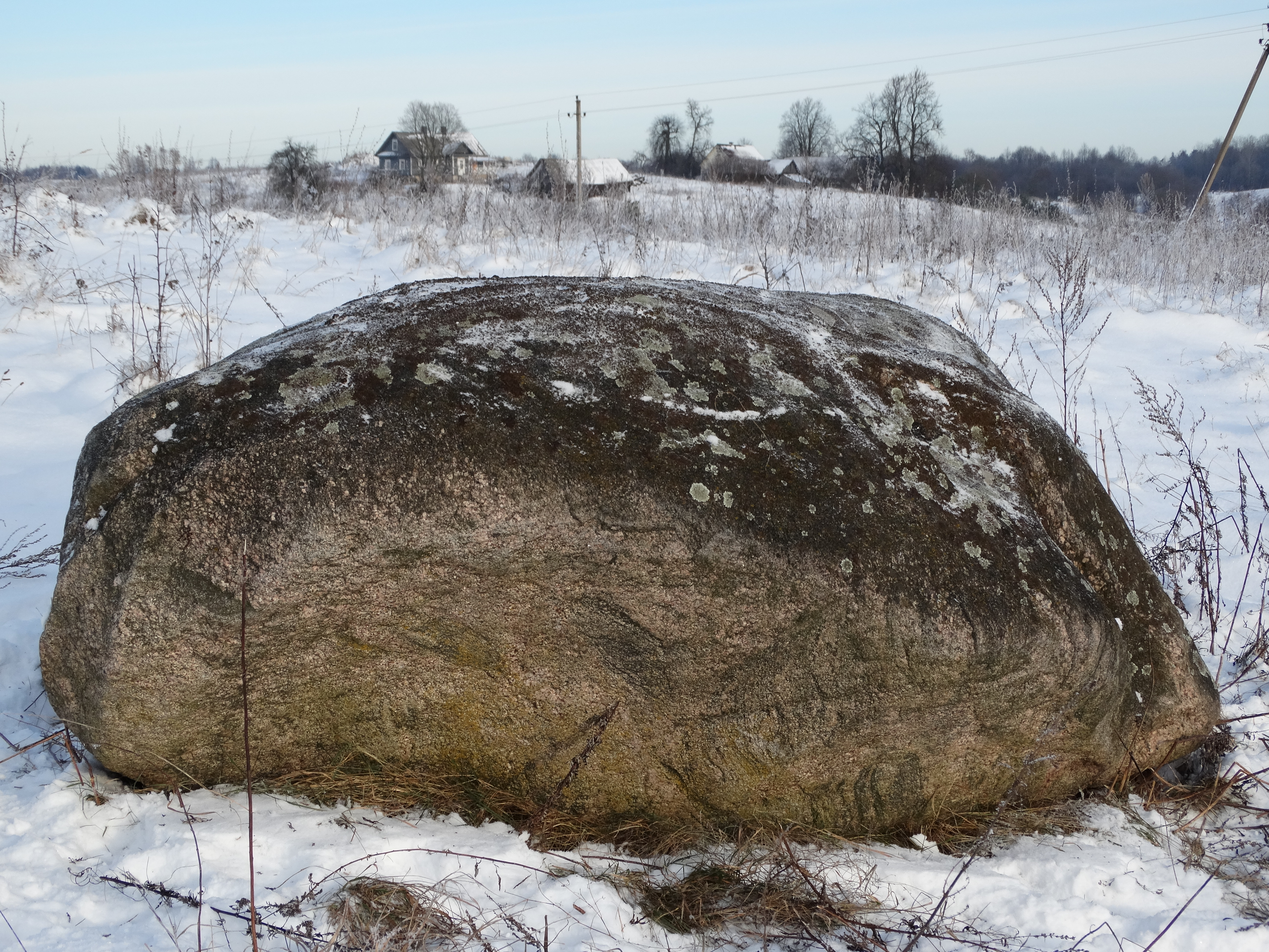 Krakovsky Stone, Trakai district, Lithuania